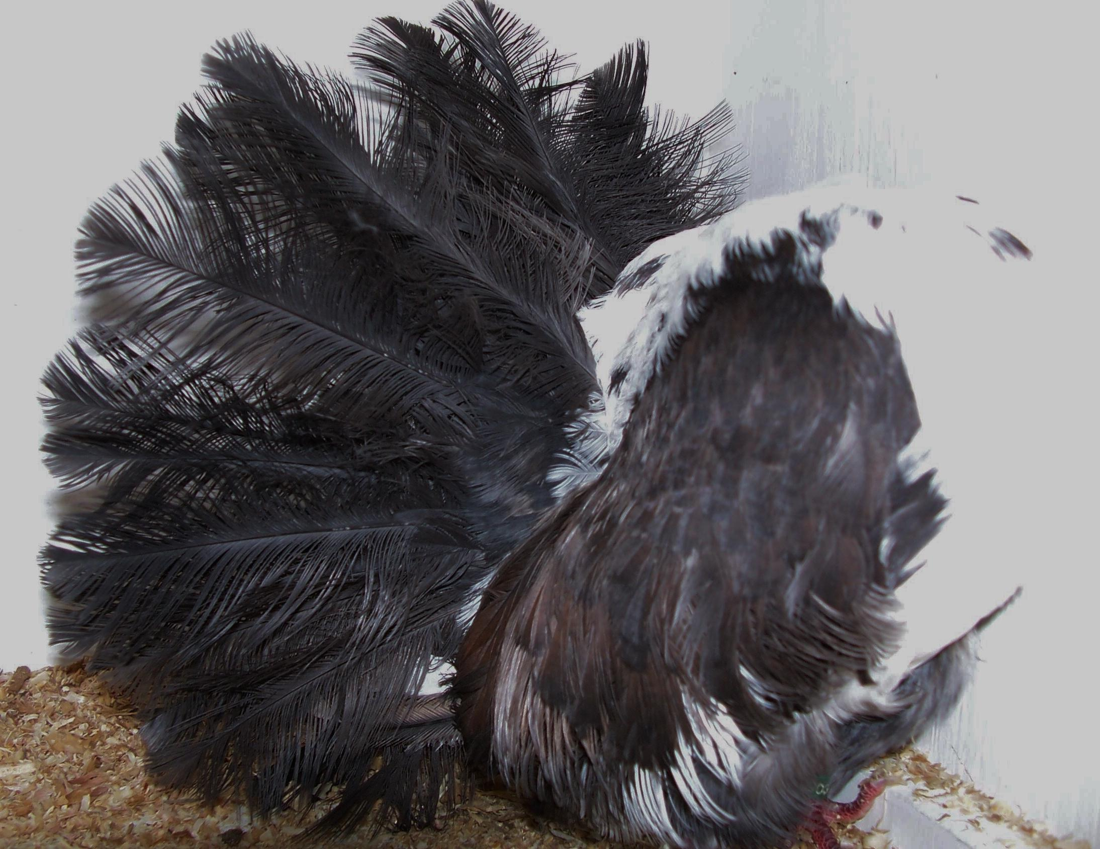 A Silky Fantail pigeon at the Queensland State Show 2008. This bird is an old hen owned by Alan Needham.